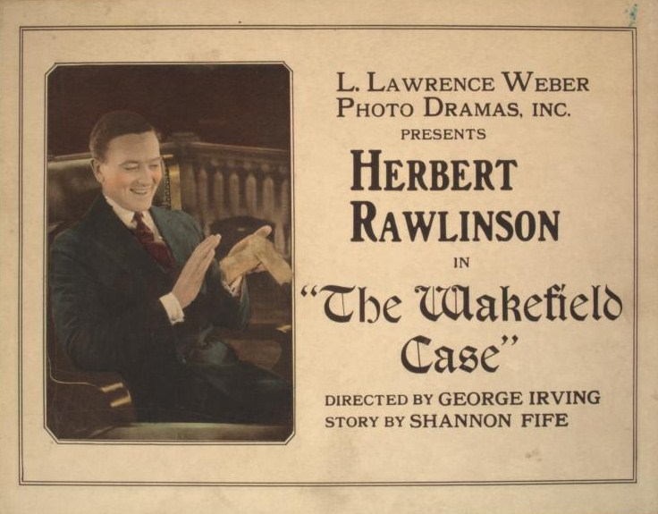 Herbert Rawlinson in The Wakefield Case (1921) (American film directed by George Irving) - promotional postcard.